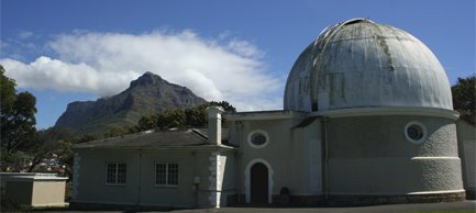 Observatory in Cape Town. The historic observatory building after which the area is named.